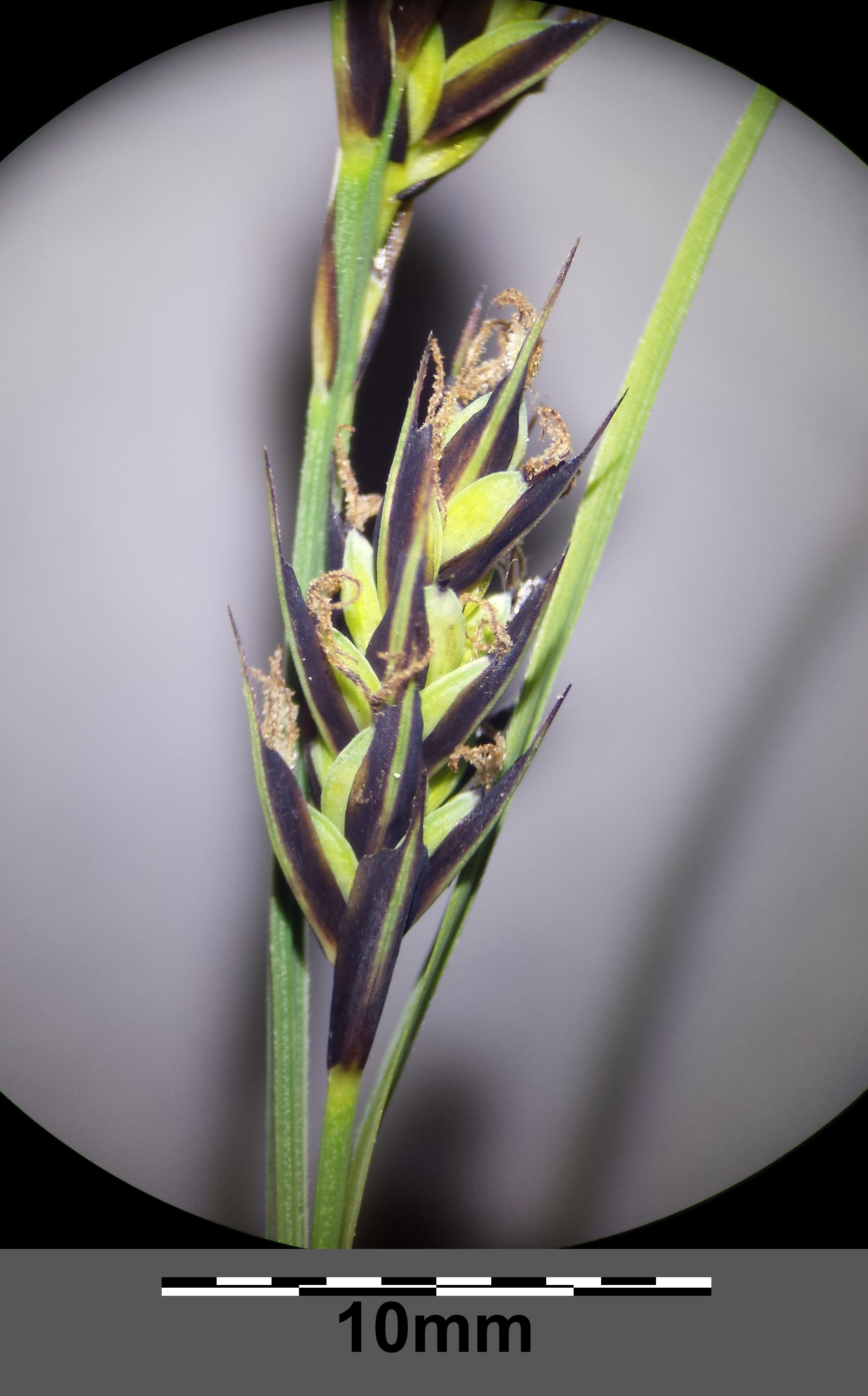 Spike Taxonym: Carex buxbaumii ss Fischer et al. EfÖLS 2008 ISBN 978-3-85474-187-9 Location: Mamauwiese near Puchberg am Schneeberg, district Wiener Neustadt, Lower Austria - ca. 950 m a.s.l. Habitat: meadows